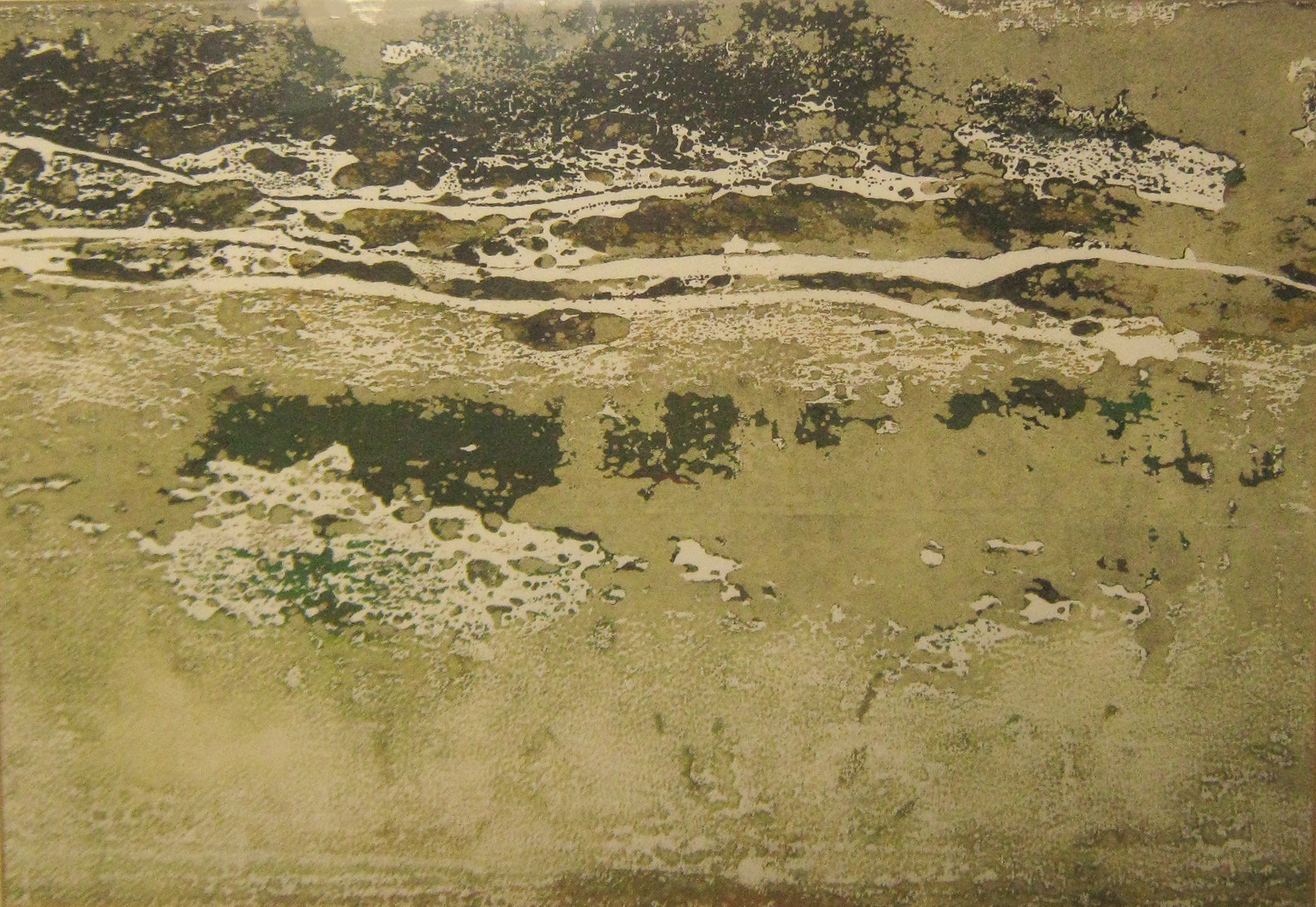 Landscape monoprint Ian Sprague 1980s; photographed in a private collection at Enfield Victoria